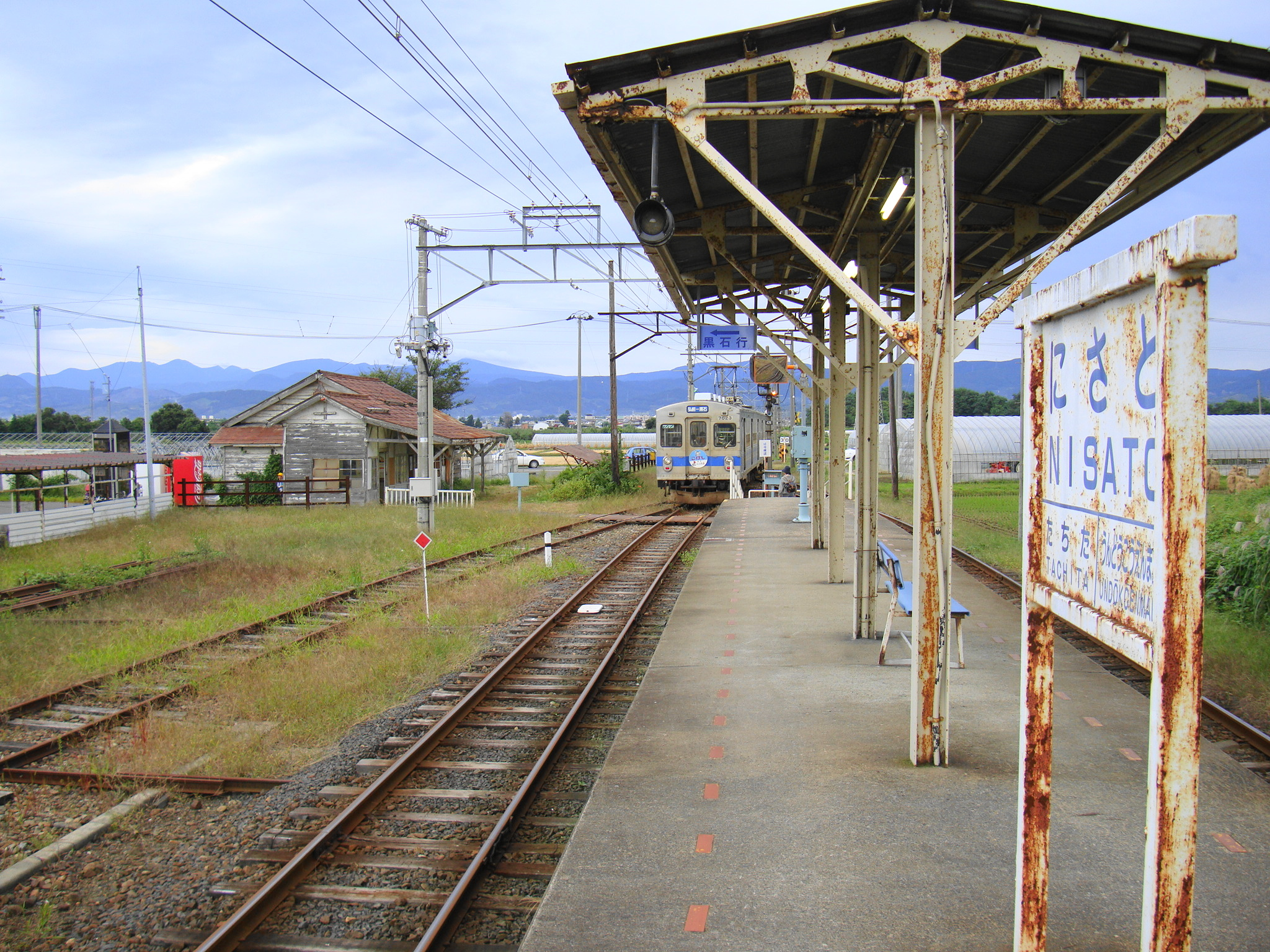 Nisato Station